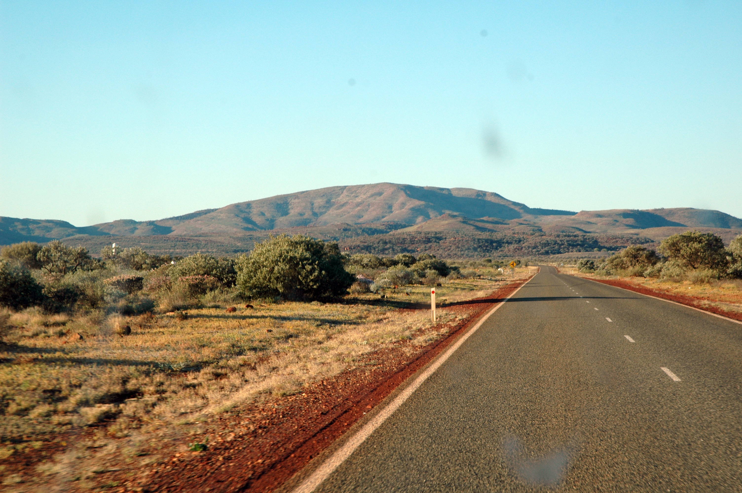 Main Highway just outside the towm of Paraburdoo showing the high iron concentrations in the soil.